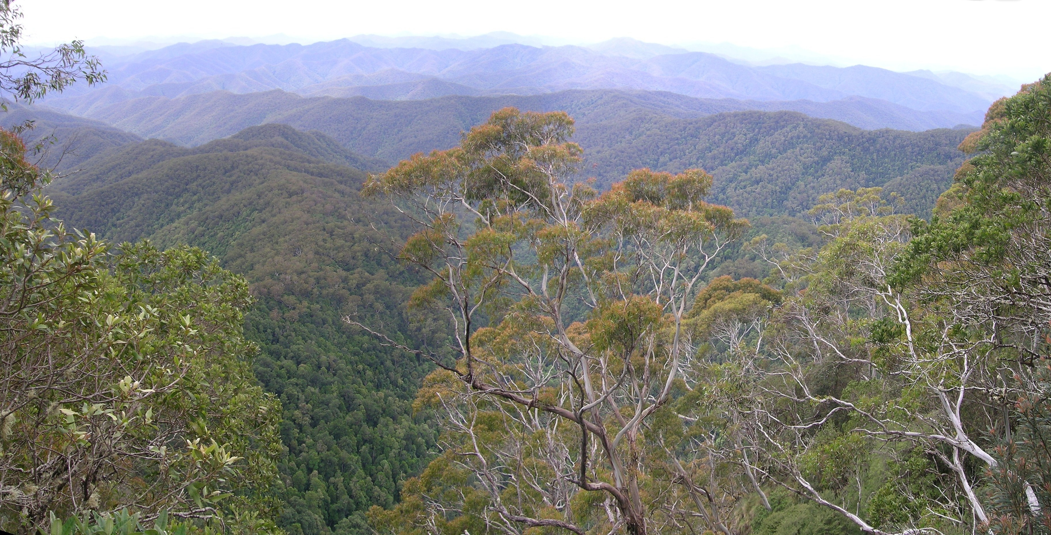 View from Point Lookout, New England National Park, NSW